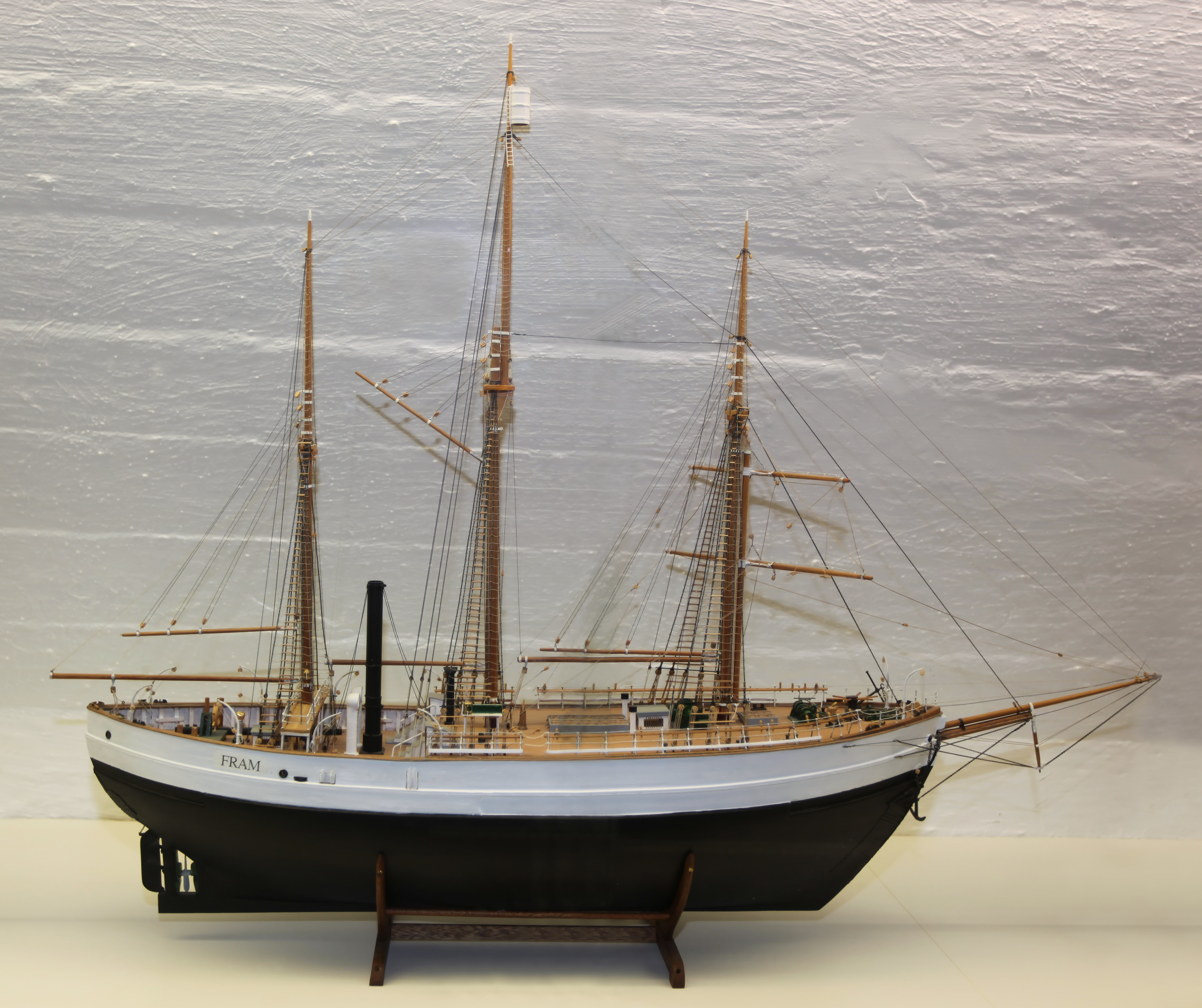 Model of the Fram 1898-1902 at the Fram Museum, Oslo, Norway. Model by Colin Archer.